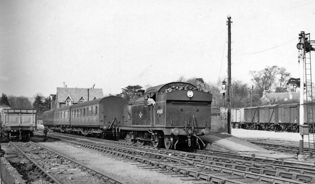 Buntingford Station, with train. View northward, to buffer-stops; ex-Great Eastern branch from St Maragarets'. The station and branch were closed to passengers 16/11/64, to goods 20/9/65. A Class N7 0-6-2T is working the branch train.